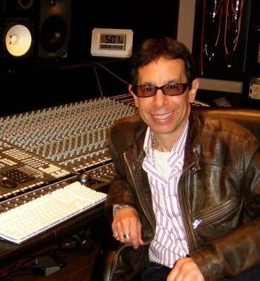 Joey Carbone in a recording strudio